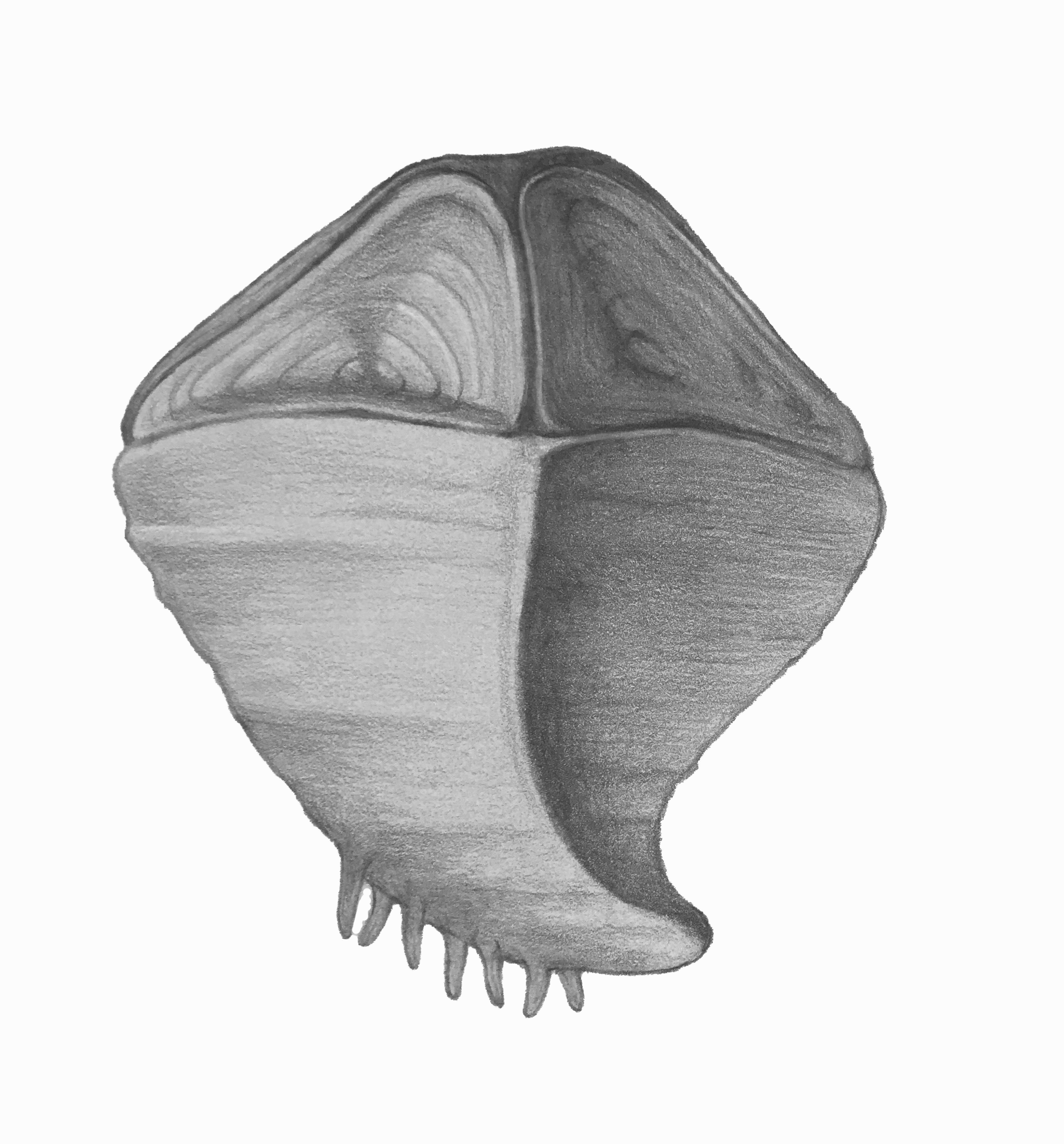 A illustration of the coral species Goniophyllum pyramidale